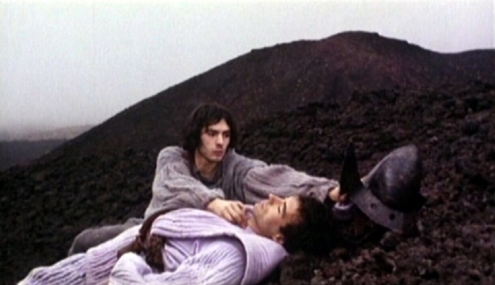 Screenshot from Porcile